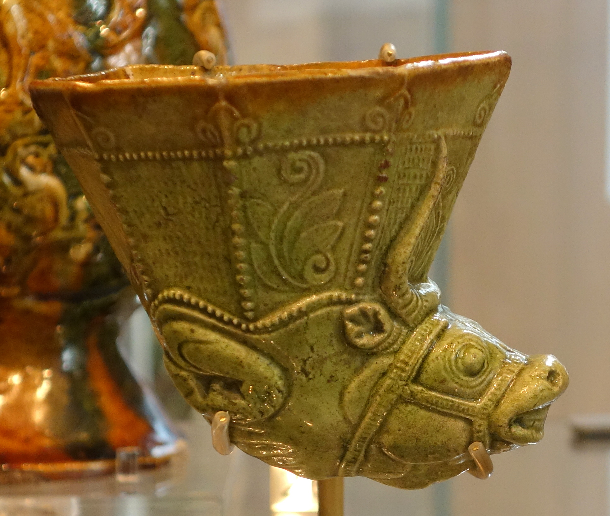 Exhibit in the Royal Ontario Museum, Toronto, Ontario, Canada. This work is old enough so that it is in the public domain.